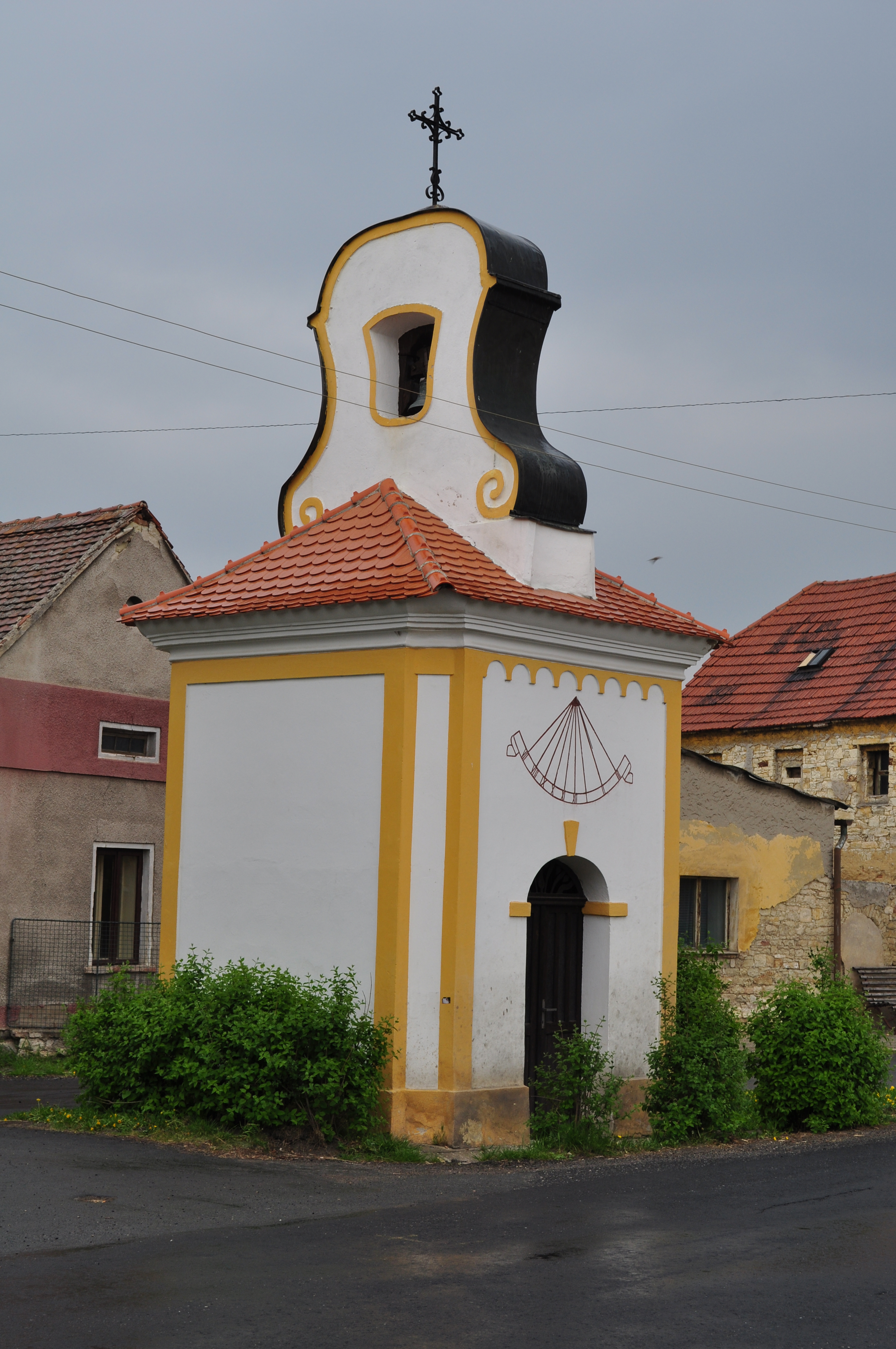 Hřivčice - Belfry